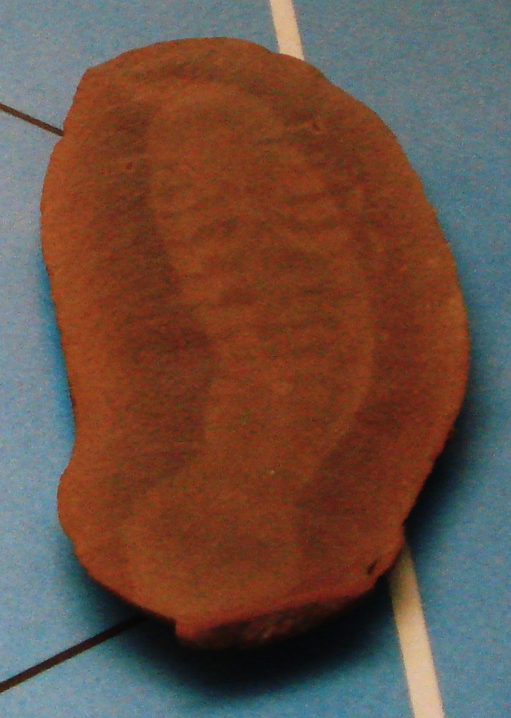 Fossil of Tullimonstrum gregarium, an extinct enigmatic animal